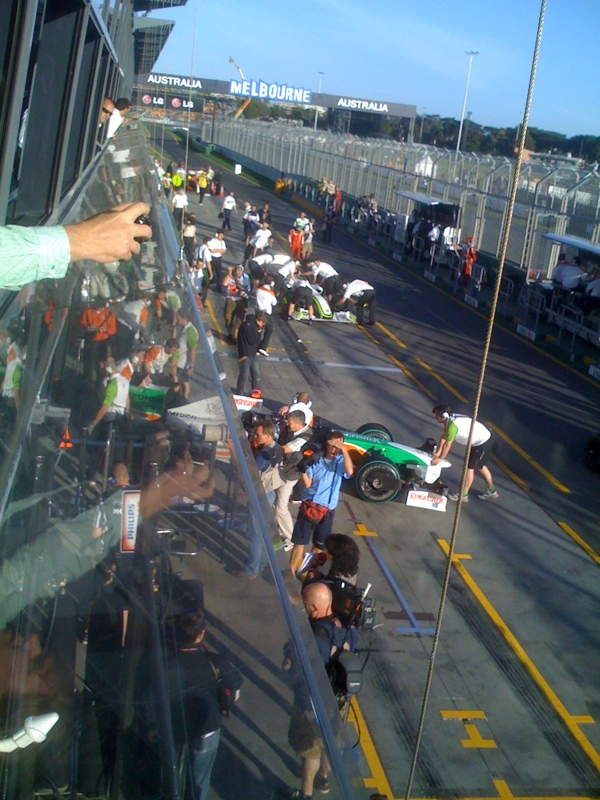 The dark horse, the accidental F1 heroes Brawn F1. #melbf1